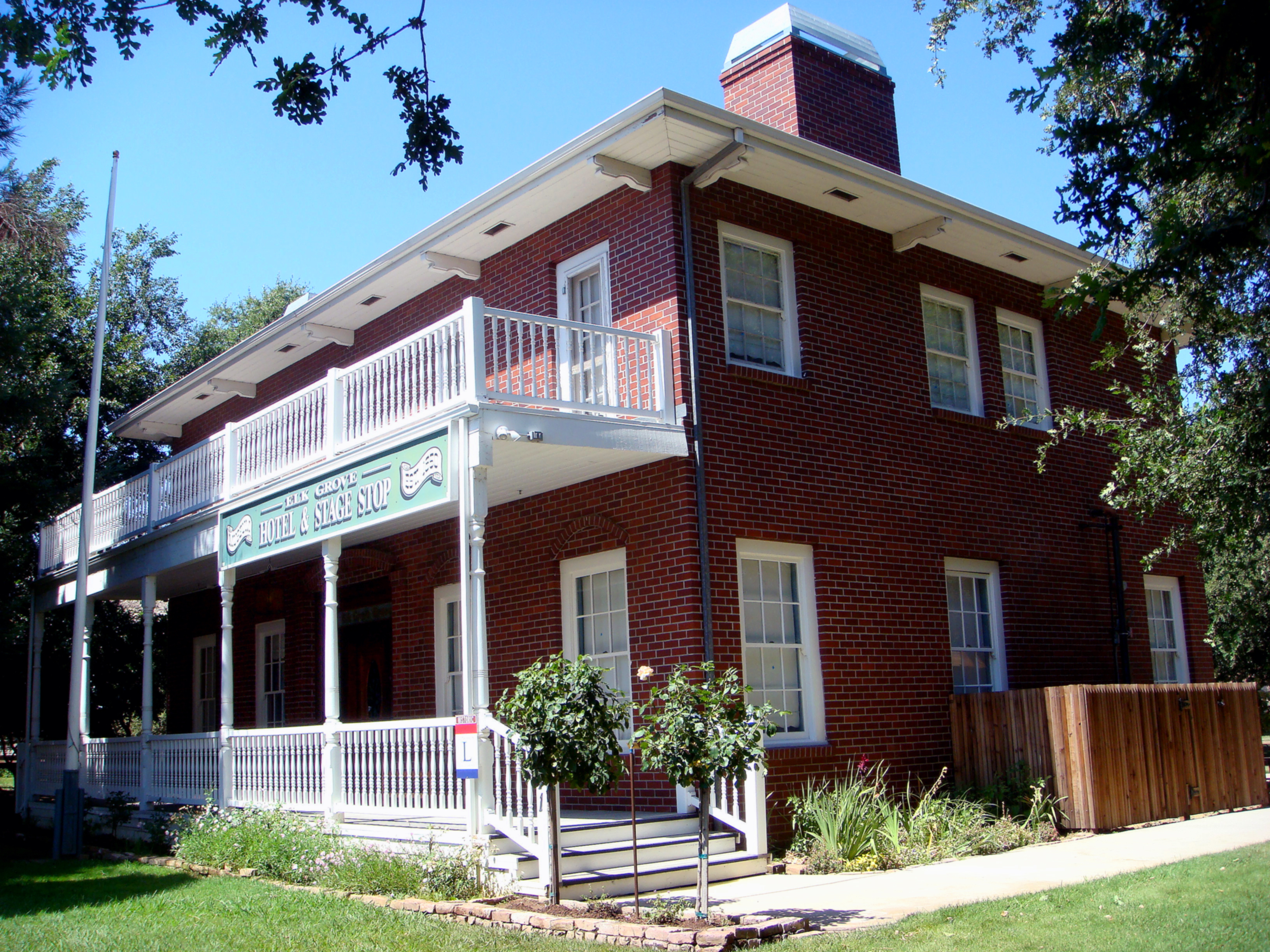 The Elk Grove Hotel